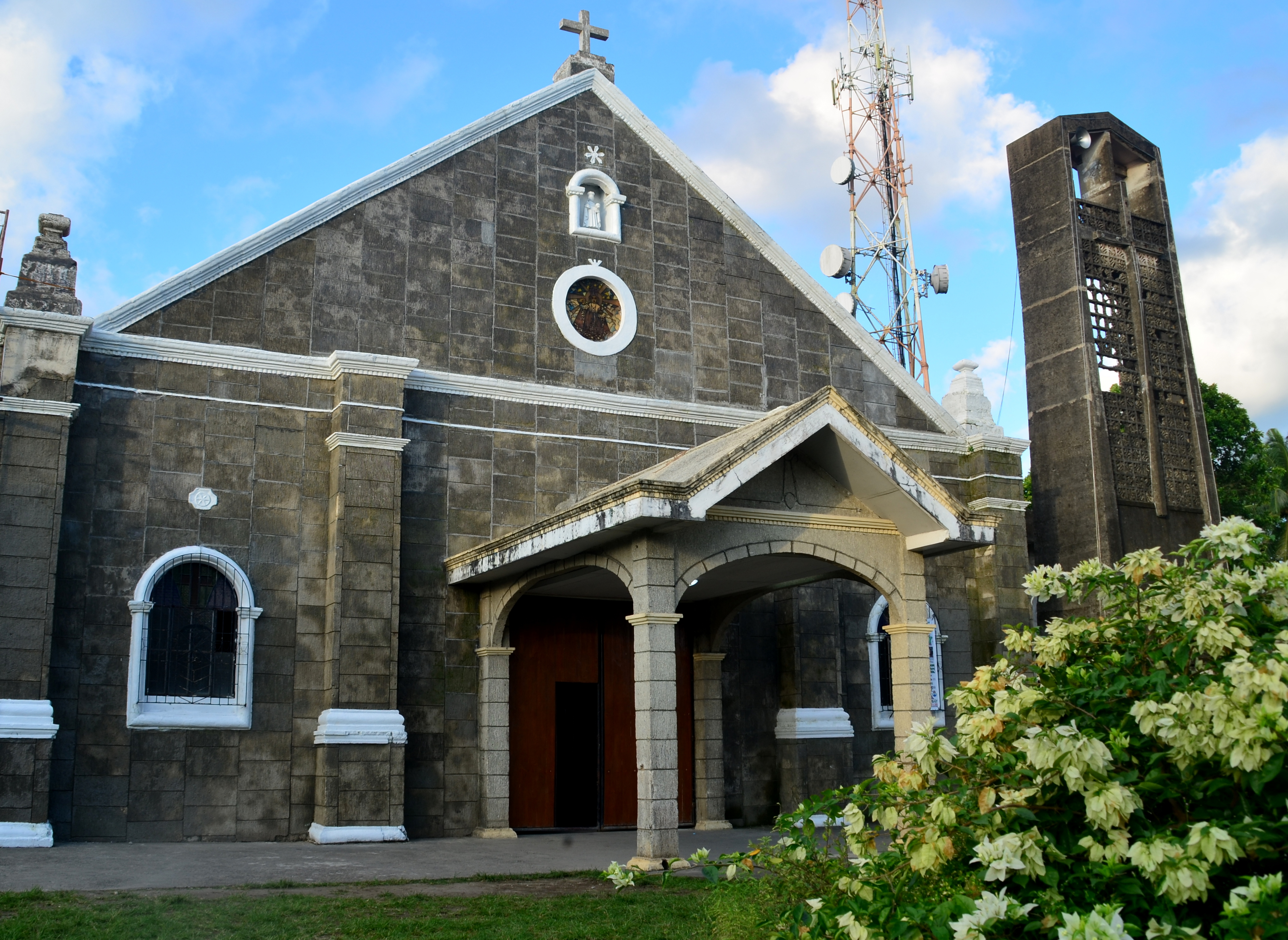 The Roman-Catholic Church of Matnog